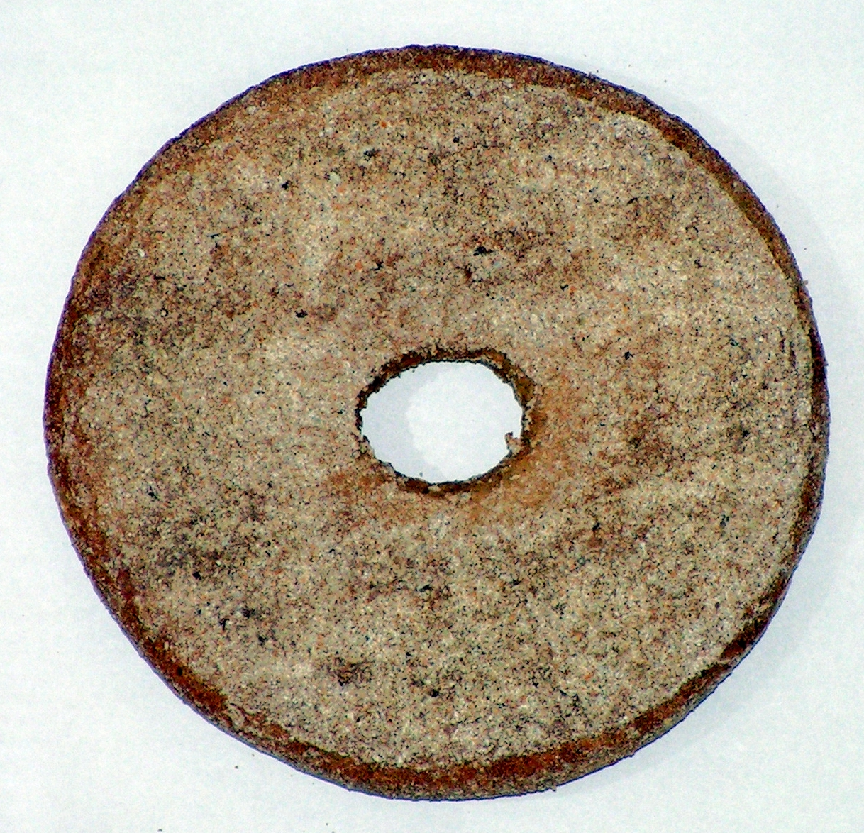 Reikäleipä (finnish traditional bread with the hole in center): a view from below